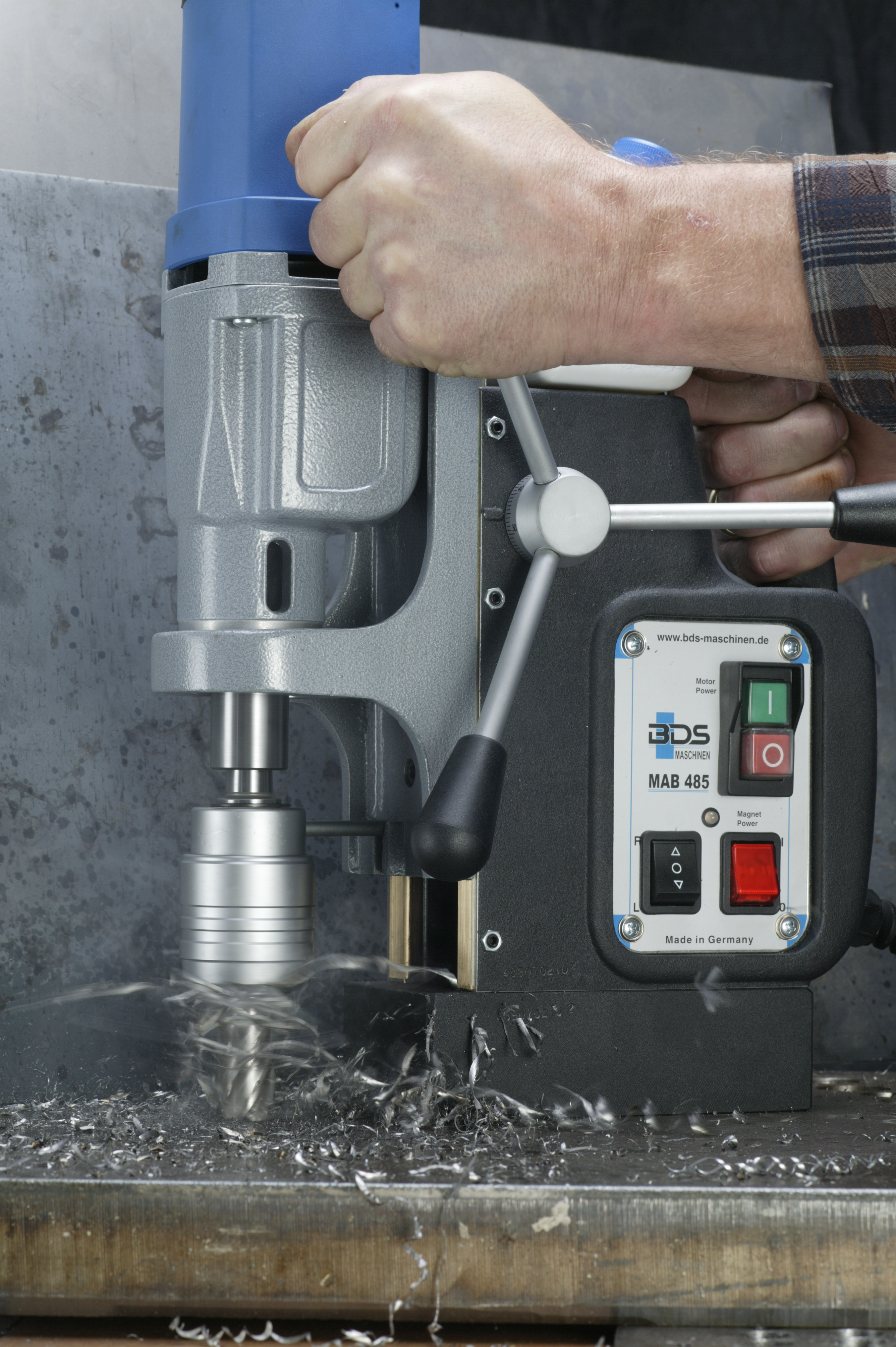 A Magnetic drilling machine using Annular cutters for making holes in metal.